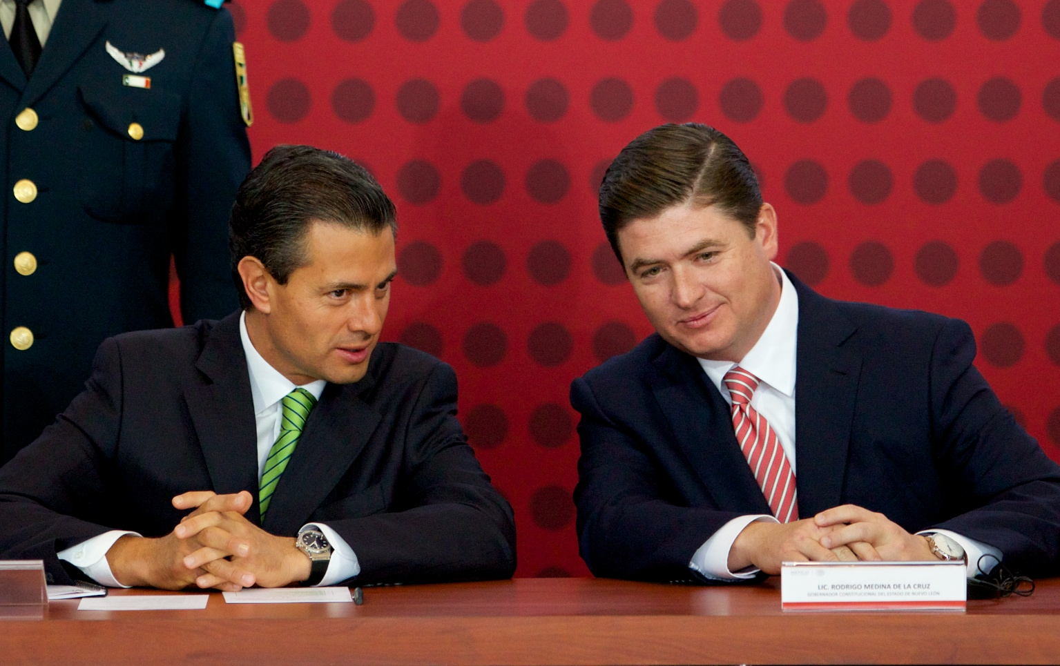 Anuncio de inversión de la Planta de Ensamble de Vehículos Kia Motors. Ciudad de México. 27 de agosto de 2014.